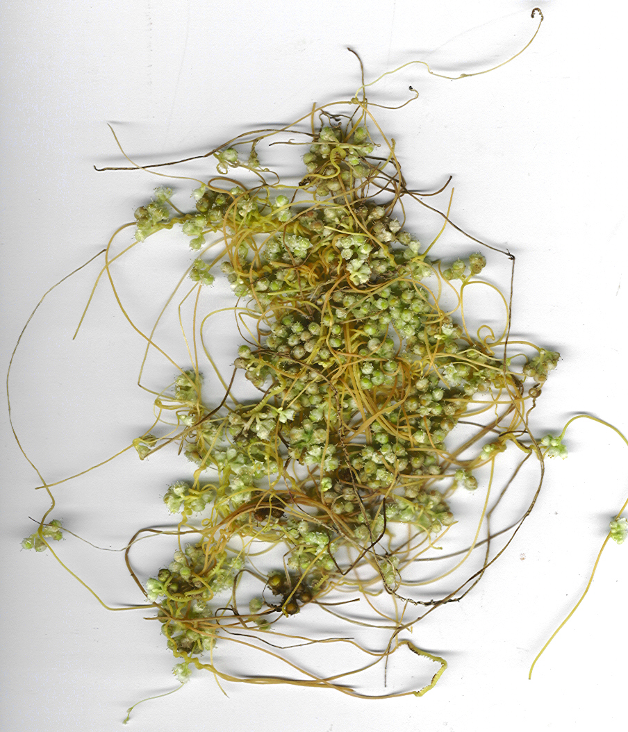 Cuscuta campestris (plant). Location: Maui, MM 7 Hana Hwy